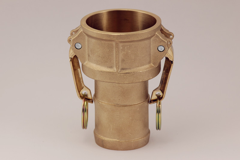 Cam and groove brass